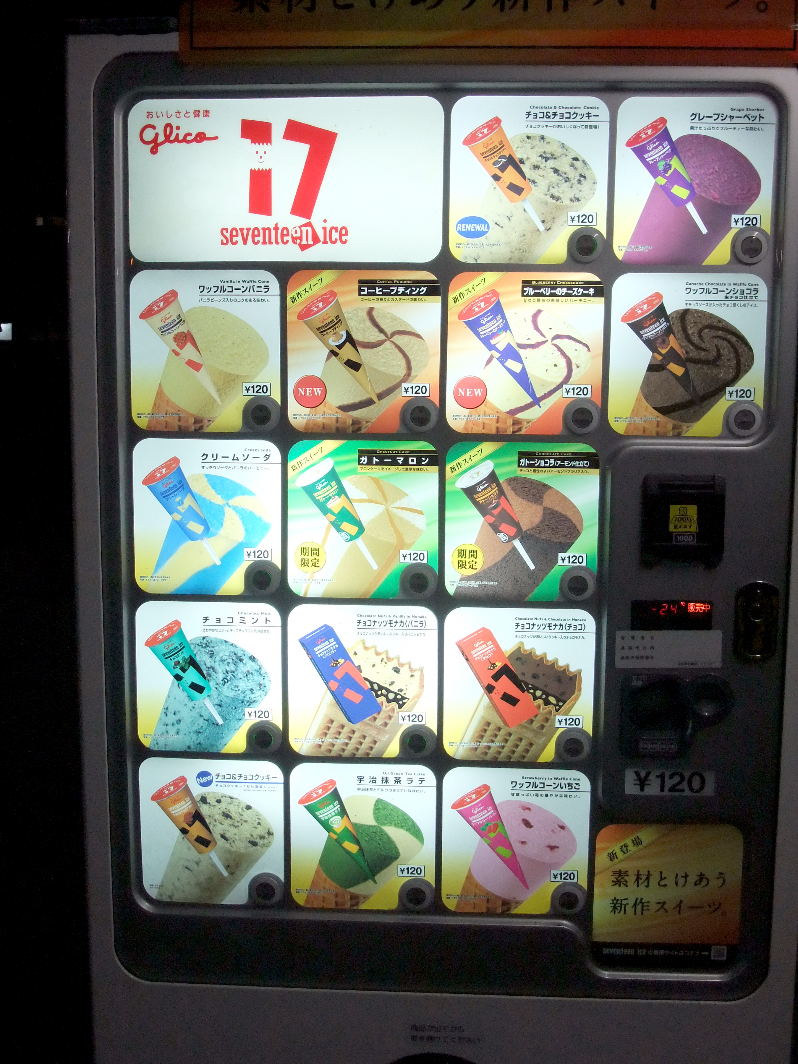 A Glico ice cream vending machine in Japan.